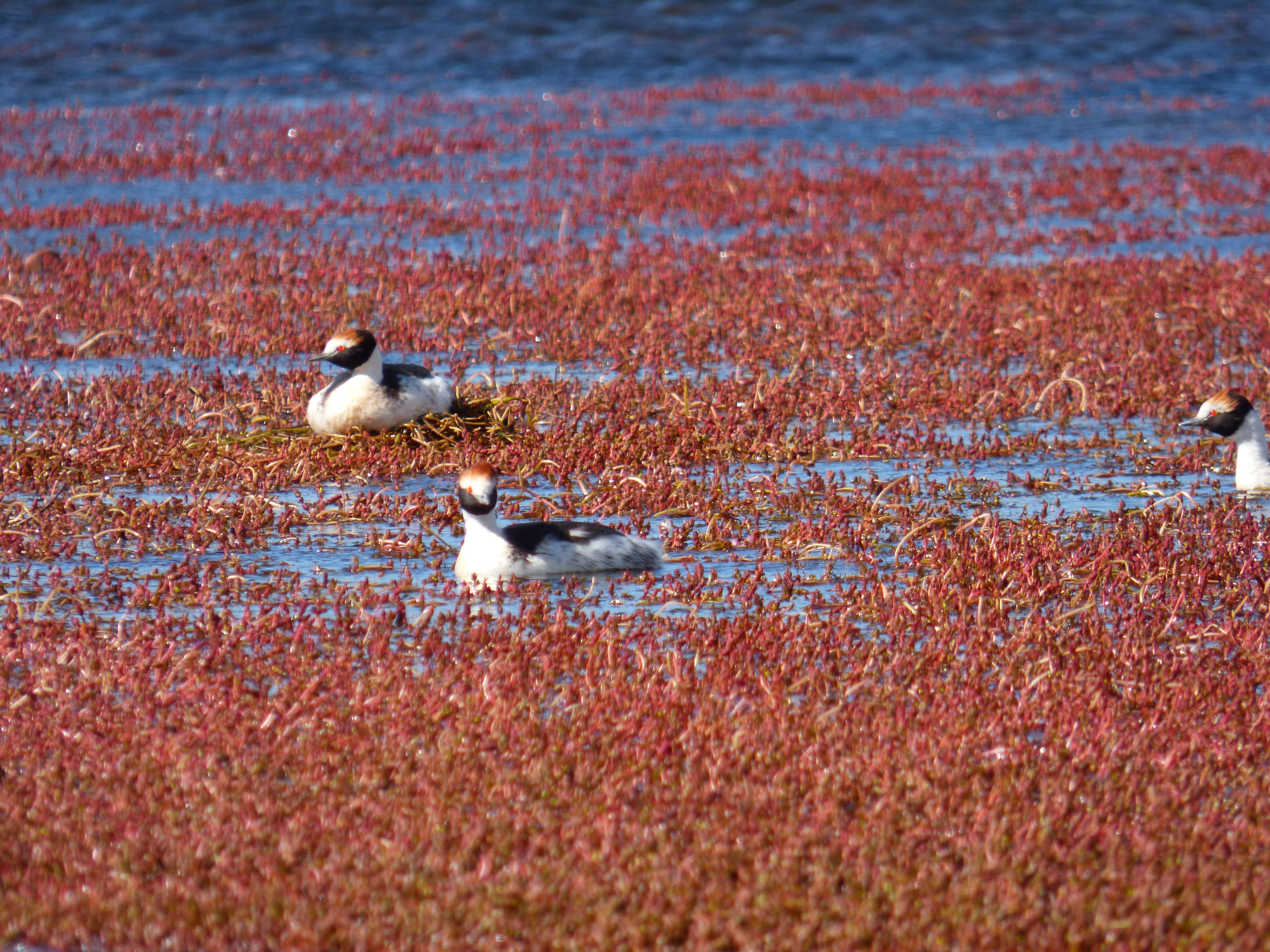 Hooded Grebe Podiceps gallardoi - Macá tobiano, Parque Nacional Patagonia. Argentinas. endemic acuatic bird from Argentina. Endangered species